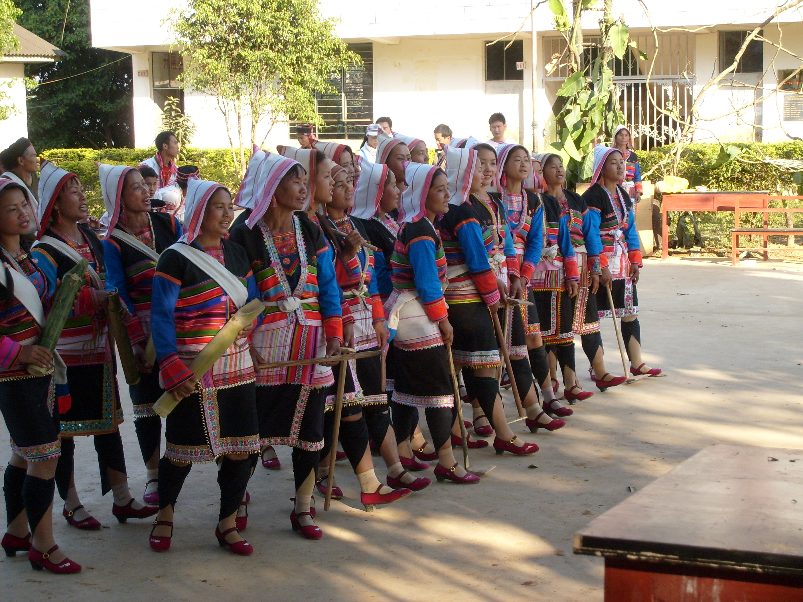 Preparations for the big yearly festival, this year celebrated on February 8th 2010. The Jino or Jinuo are an ethnic minority in Yunnan Province, China. The photo is taken in the village Baka close to Menglun.